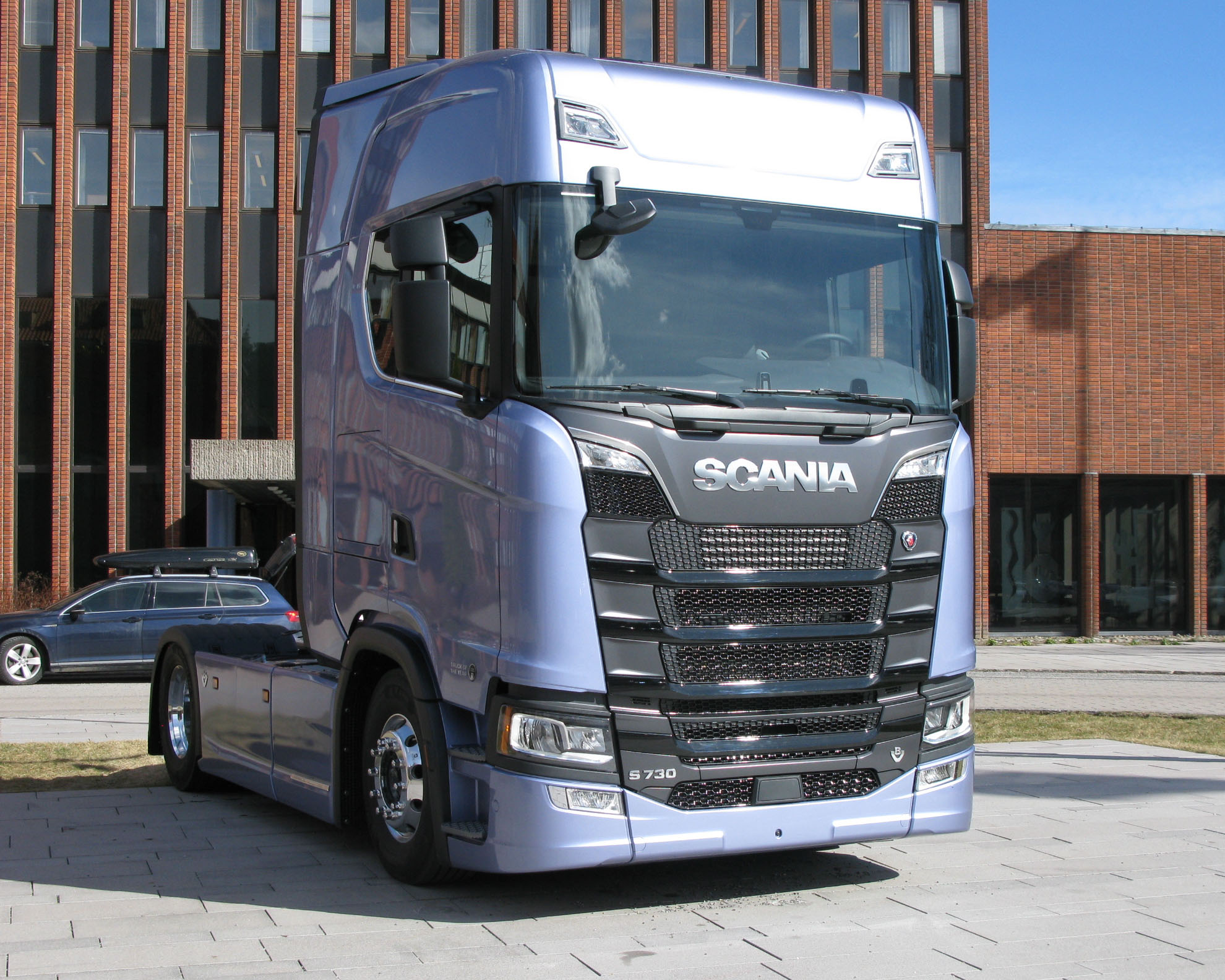 2017 Scania S730 4X2 Highline cab